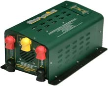 Transverter power module 2,000 watt, HT2000.